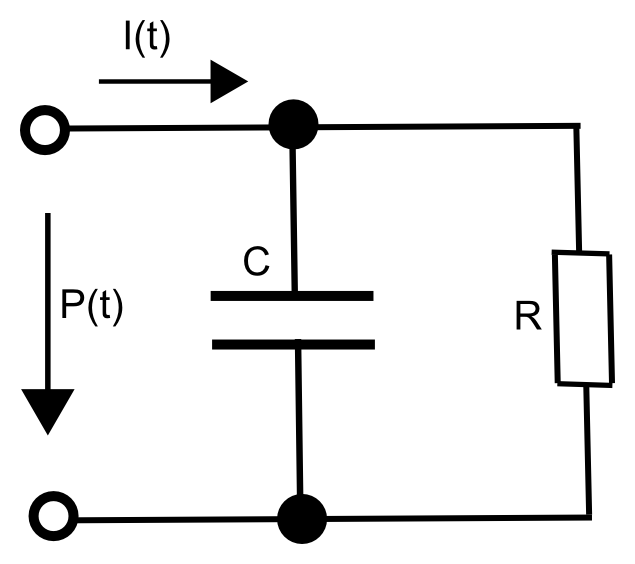 Windkessel model (2-elements)